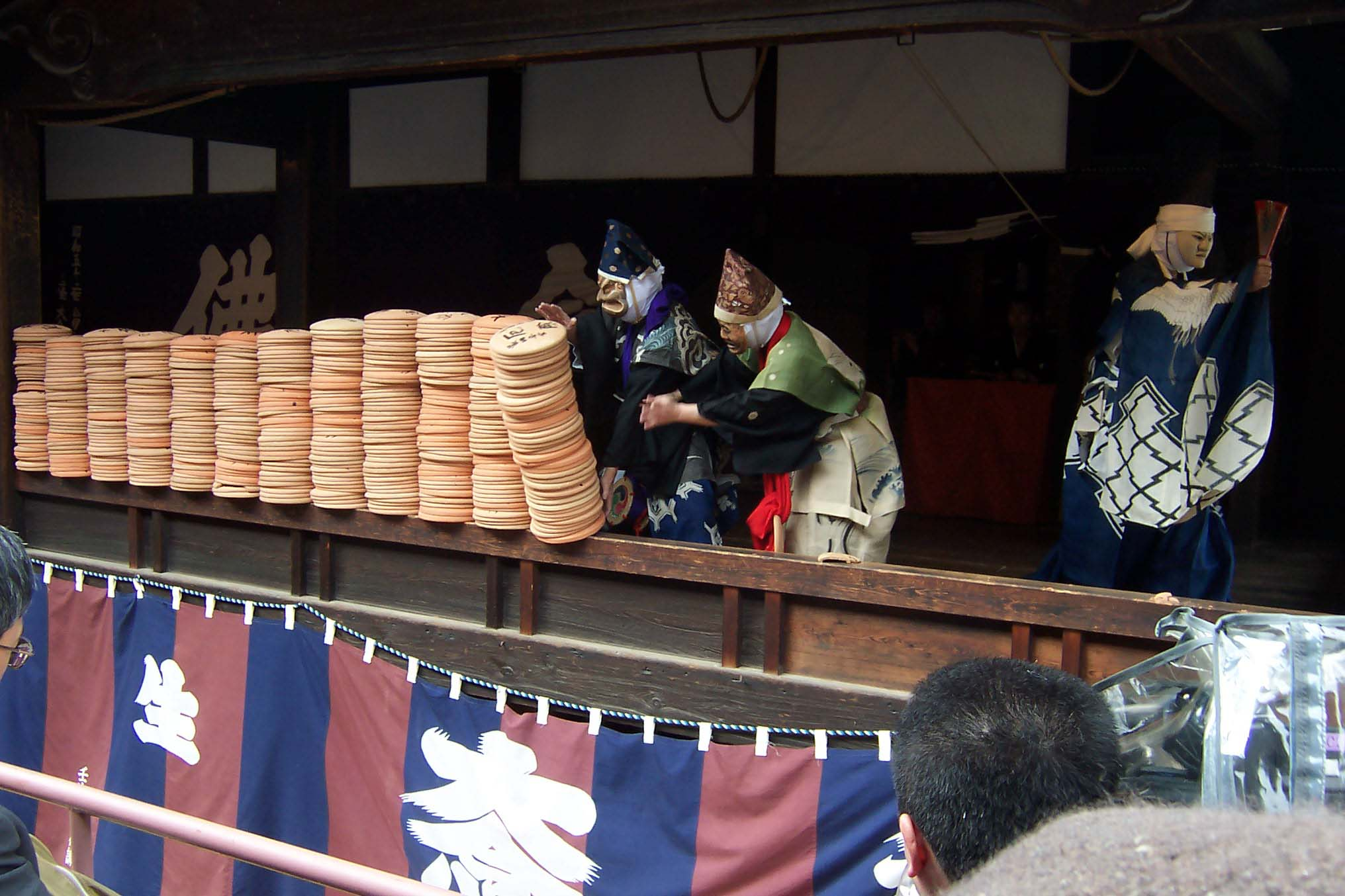 Kyōgen play at Mibu-dera, a buddhist temple in Kyoto, Japan. More detailed description at the source.